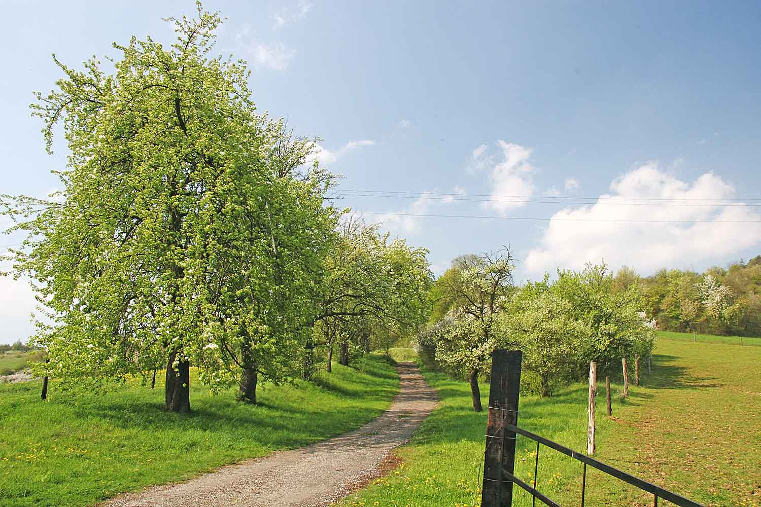 Flowering Pyrus communis autor:Prazak